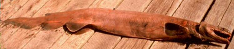 Frill shark (Chlamydoselachus anguineus) caught off southern New England